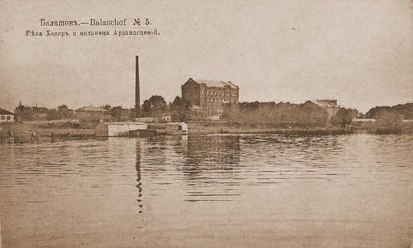 Postcard. Balashov. The river Khoper and mill of Arzamastseva